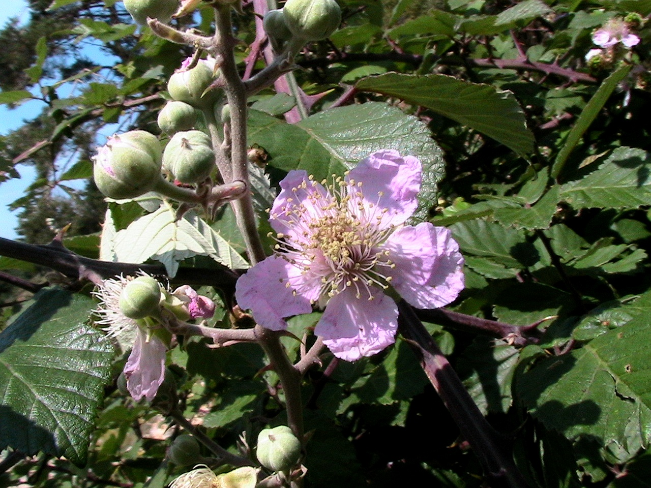 Rubus ulmifolius . In Guixers (Solsonès - Catalunya). To 1.530 m. altitude